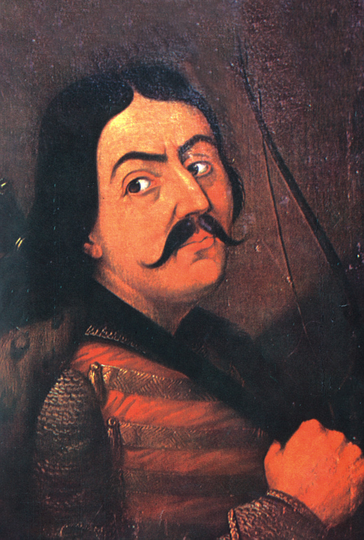 Dragoş I of Moldavia (1351 - 1353). XIXth century depiction.